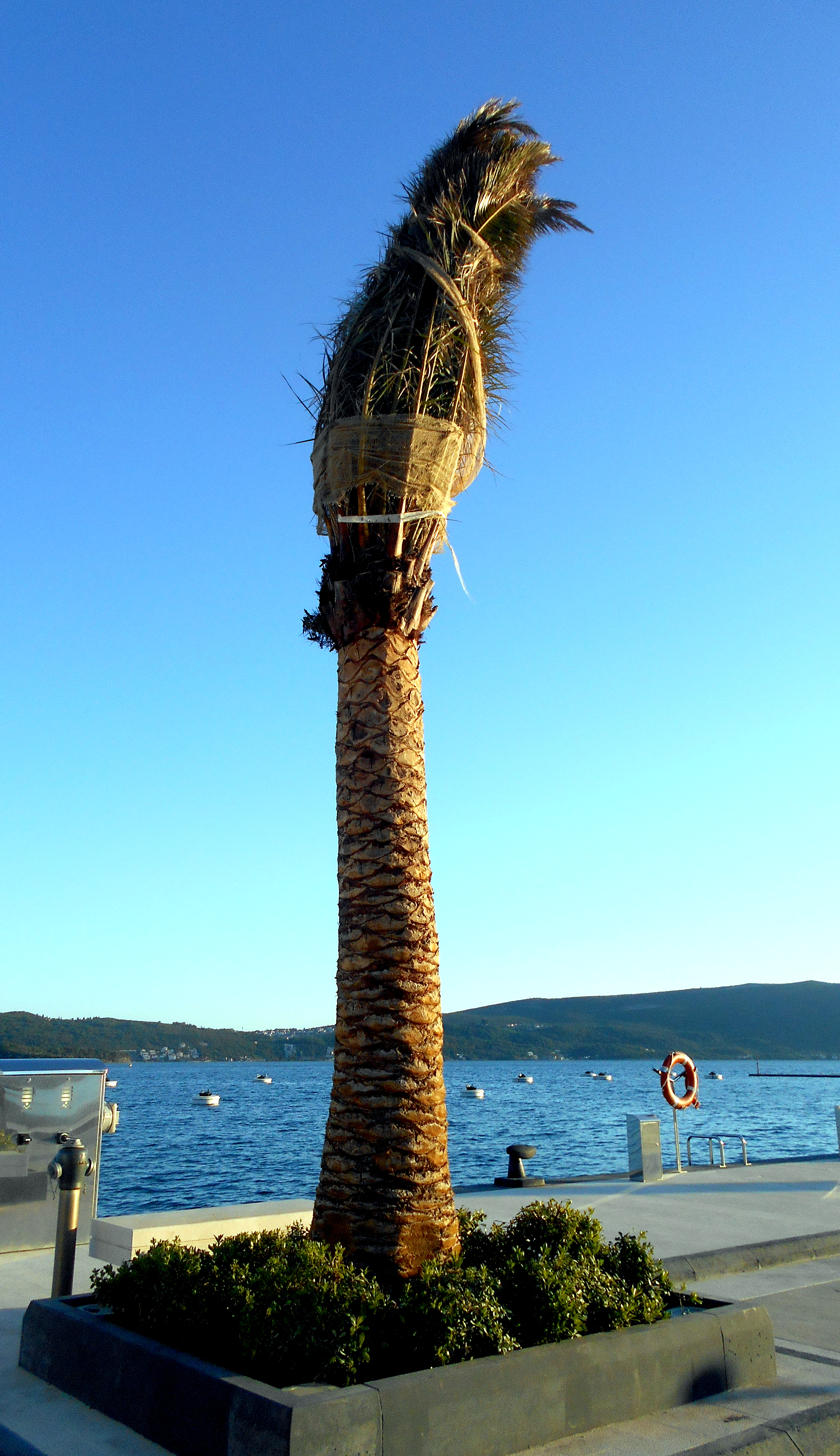 Transplanting of mature palm trees